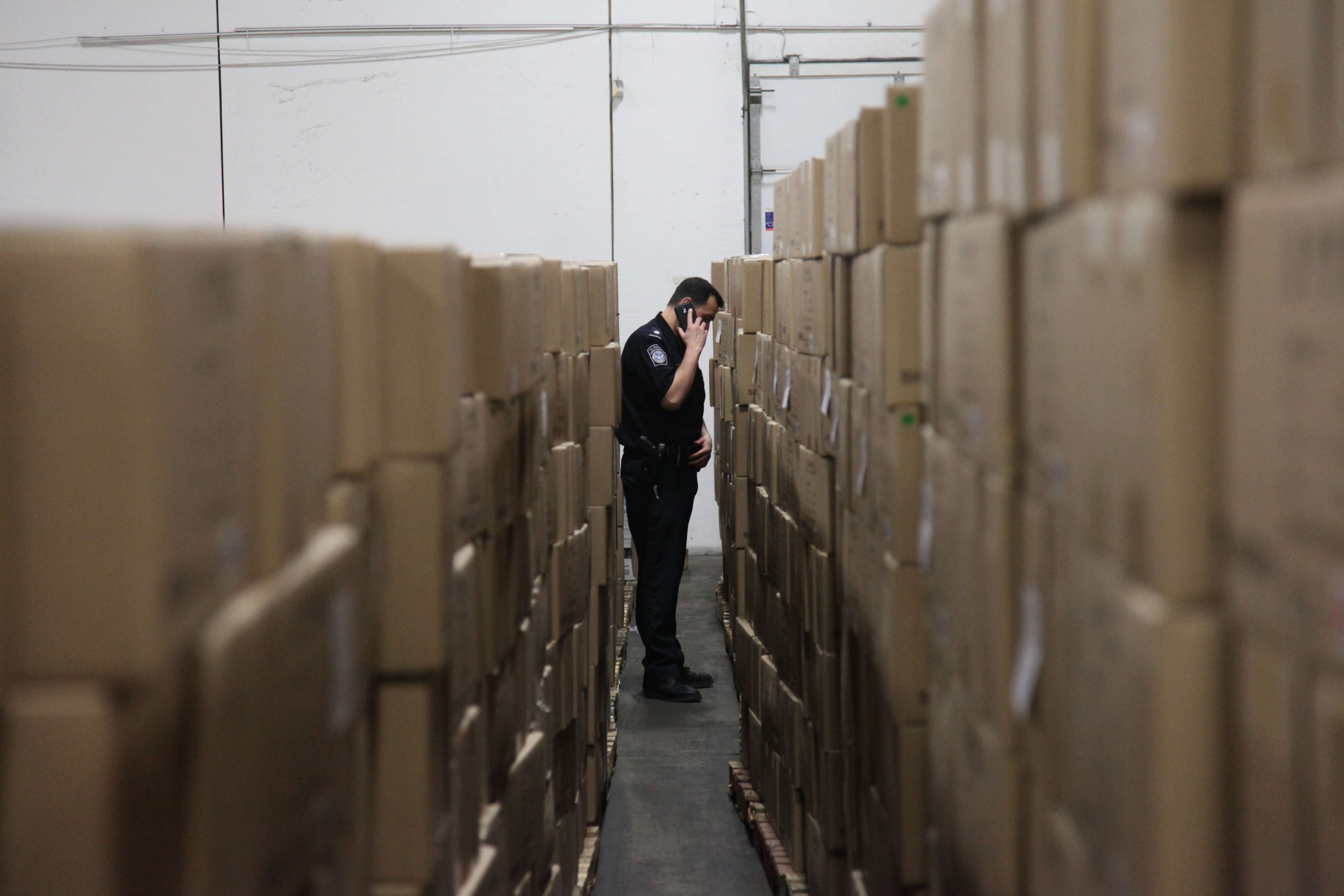 A CBP Officer assigned to the Chicago Field Office stands in between isles of counterfeit hoverboards seized in Chicago. Kristoffer N Grogan